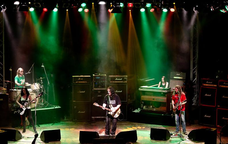 Vicki Vomit & die Misanthropischen Jazz - Schatullen